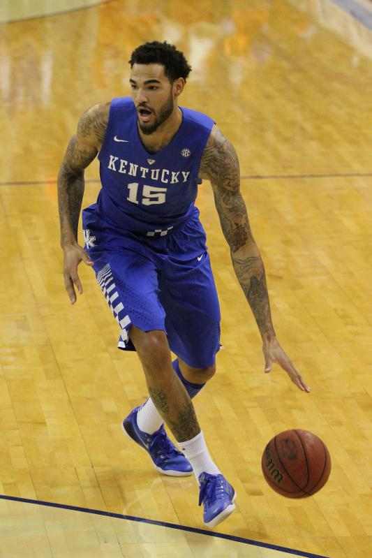 Willie Cauley-Stein in 2015 against the Florida Gators